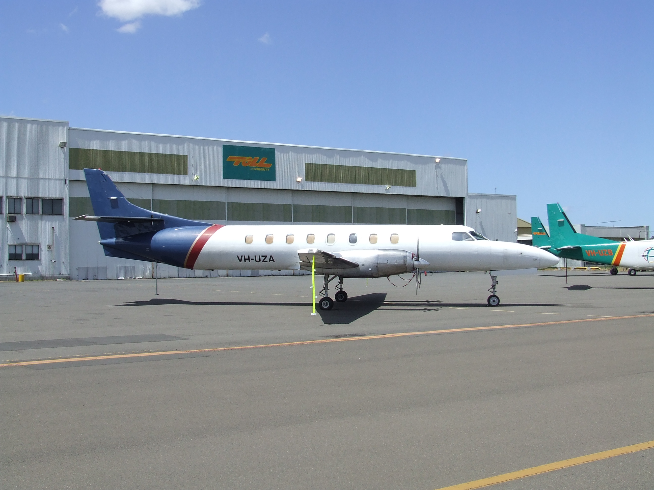 Jetcraft has operated almost twenty different Fairchild Metro aircraft of various models since its inception, in various colour schemes. This is Merlin IVB VH-UZA (converted to a freighter) in company colours, parked in front of Toll Priority's freight sorting facility at Bankstown Airport in Sydney. Digital photo of VH-UZA taken by YSSYguy at Bankstown Airport in Sydney on October 29 2006 & uploaded for use in article about Jetcraft.